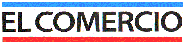 Wordmark of El Comercio, an Ecuadorian daily